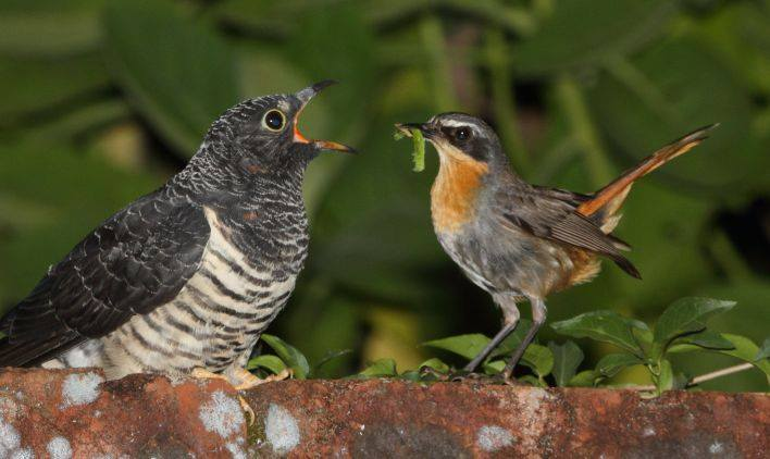 Cape robin-chat (Cossypha caffra) feeding a juvenile red-chested cuckoo (Cuculus solitarius). Brood parasite.